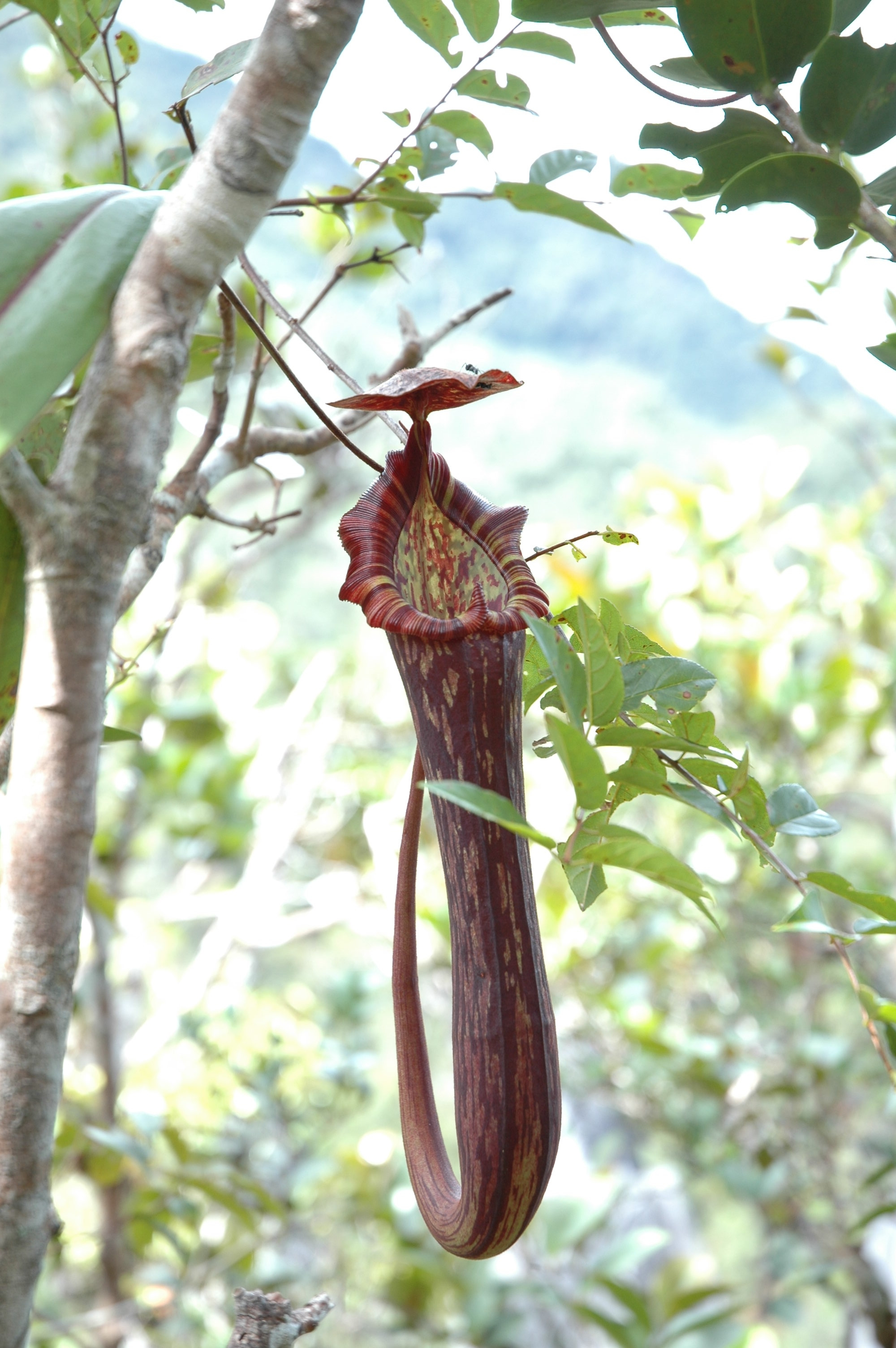 Nepenthes faizaliana Gunung Mulu Pinnacles by Jeremiah Harris